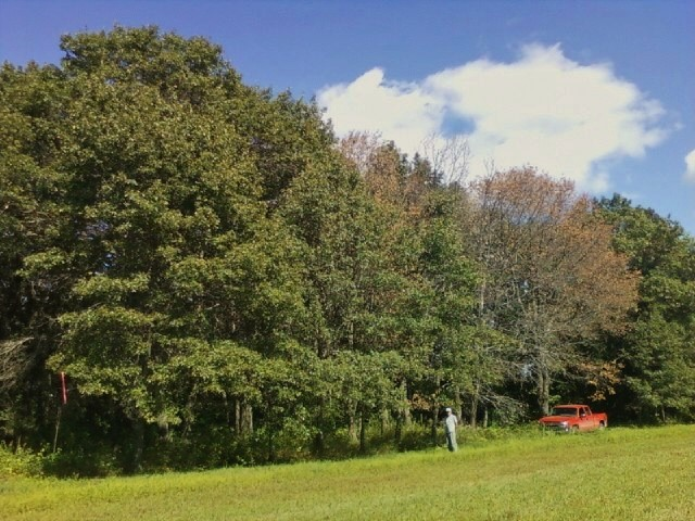 New oak wilt infection center in Kanabec County, Minnesota; one of two infections found in Kanabec County created from July 1, 2011 windstorm.